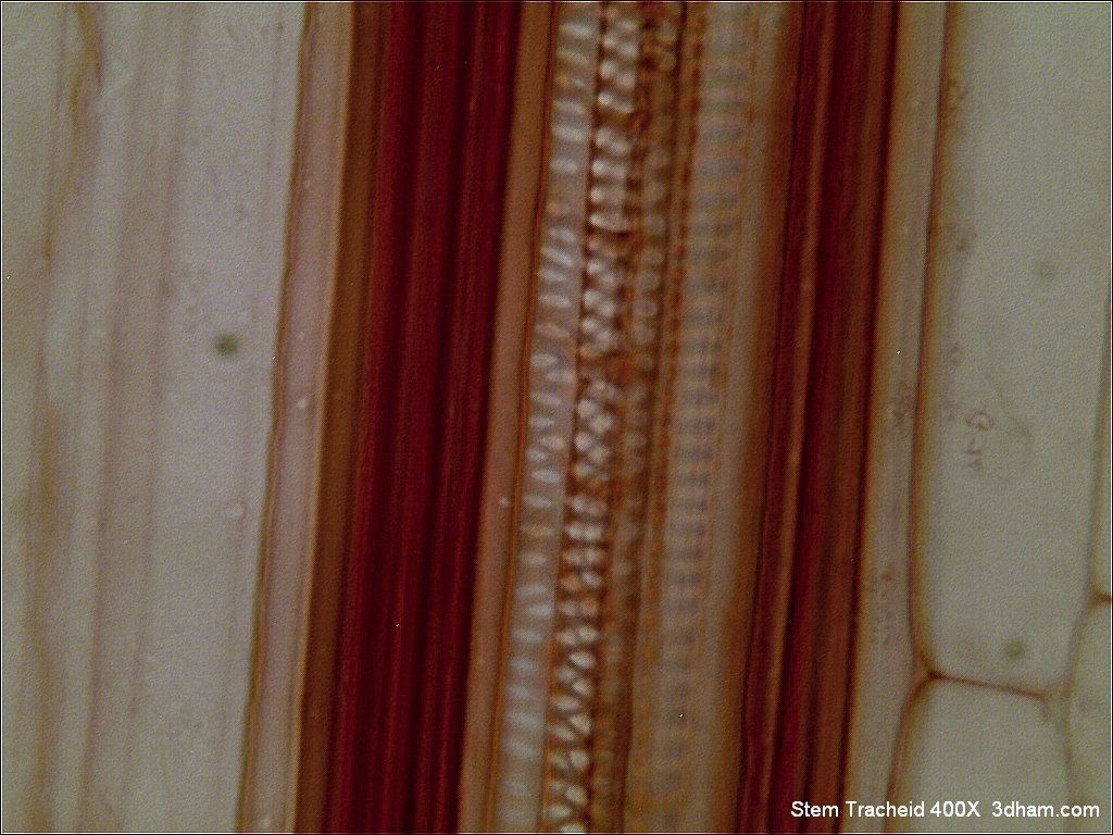 The Tracheids are elongated cells the transport fluids within the plant.